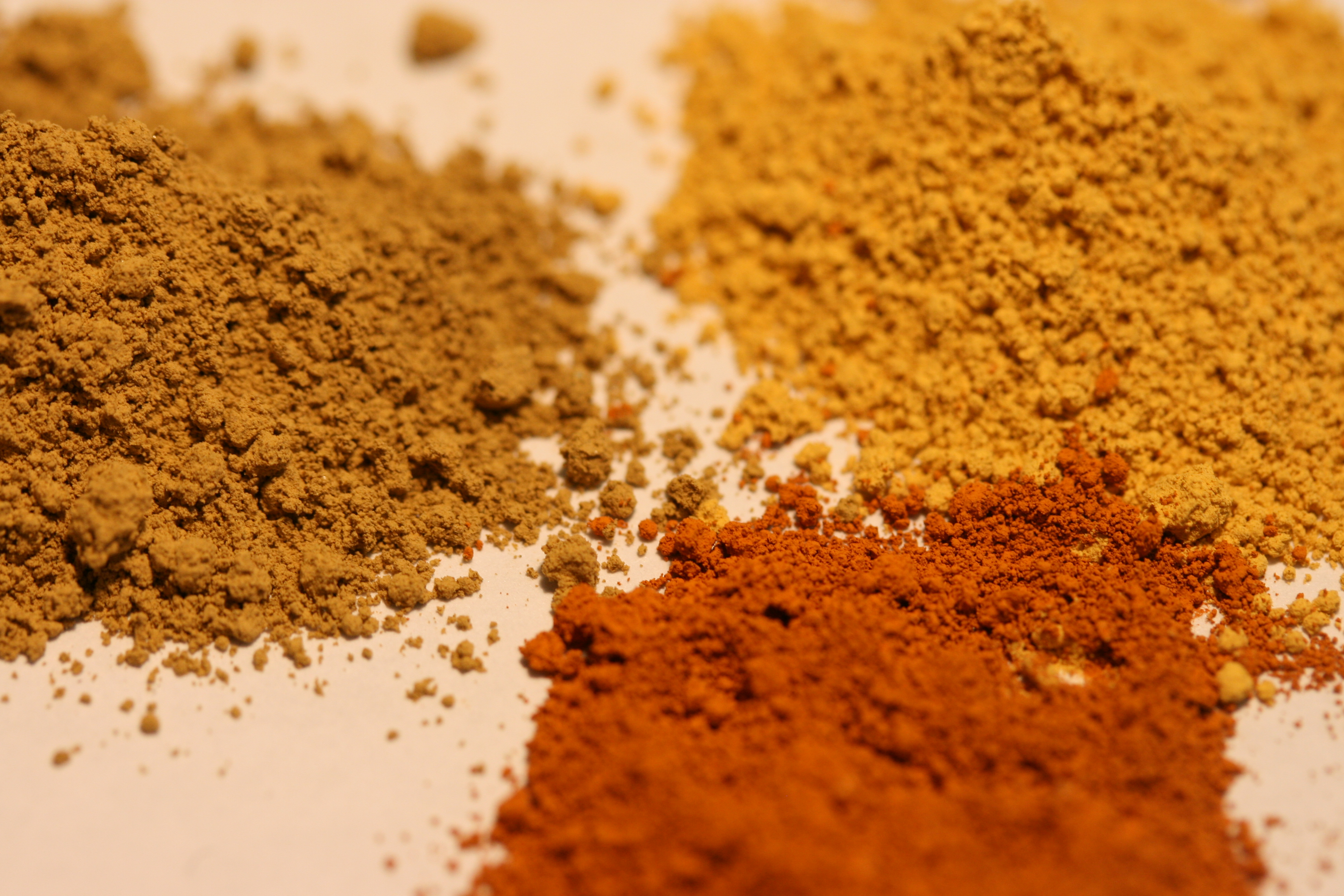 three different ochre- pigments